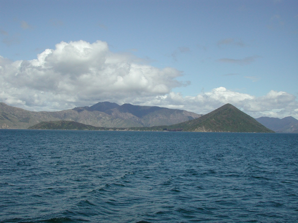 Maud Island, a nature reserve in Pelorus Sound